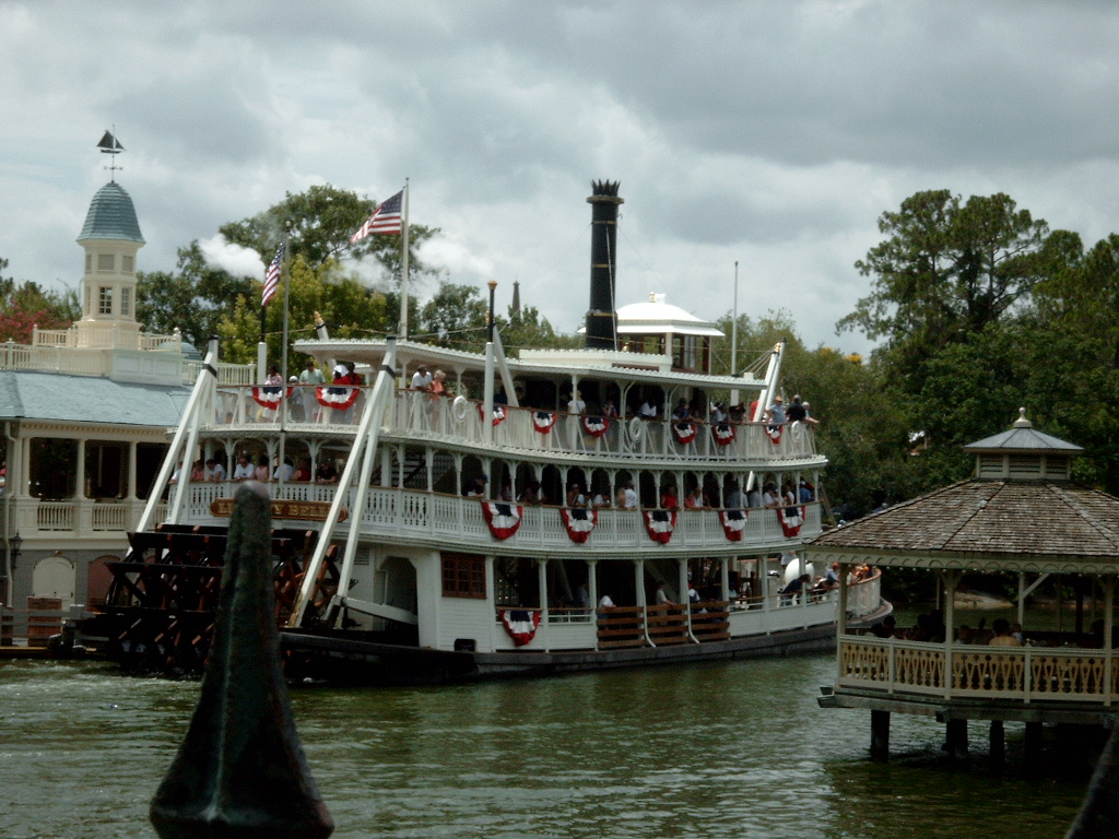 Aft view of Liberty Belle Riverboat, Magic Kingdom, Florida, July 2004